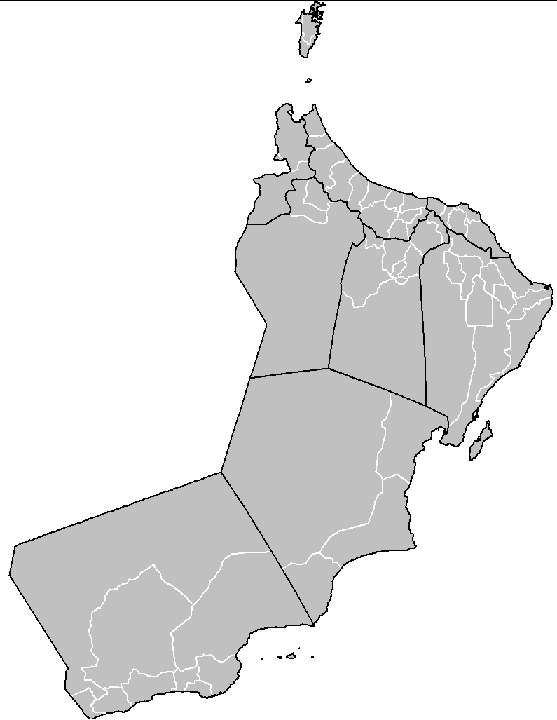 Map of the districts (wilayah) of Oman.